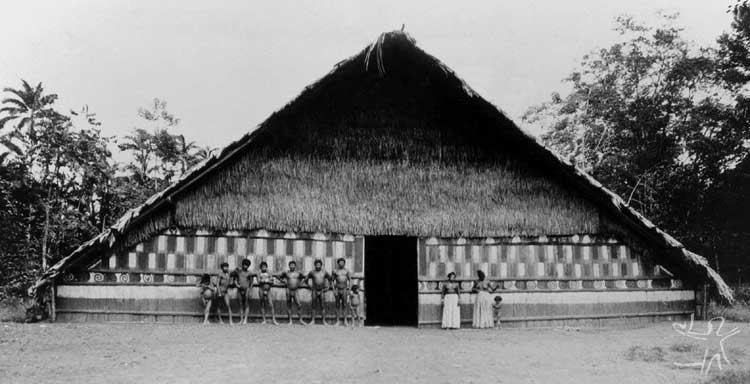 Tukano house.